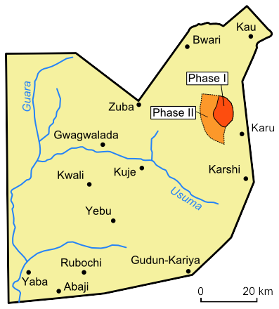 map of the Federal Capital Territory (FTC) in Nigeria